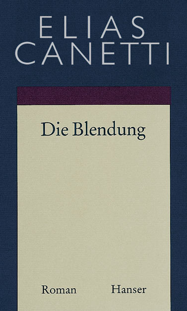 Book cover of Elias Canetti's novel Die Blendung (Gesammelte Werke, Band 1)